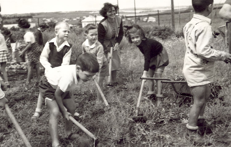 Preschool children Ein Vered, Education in Israel